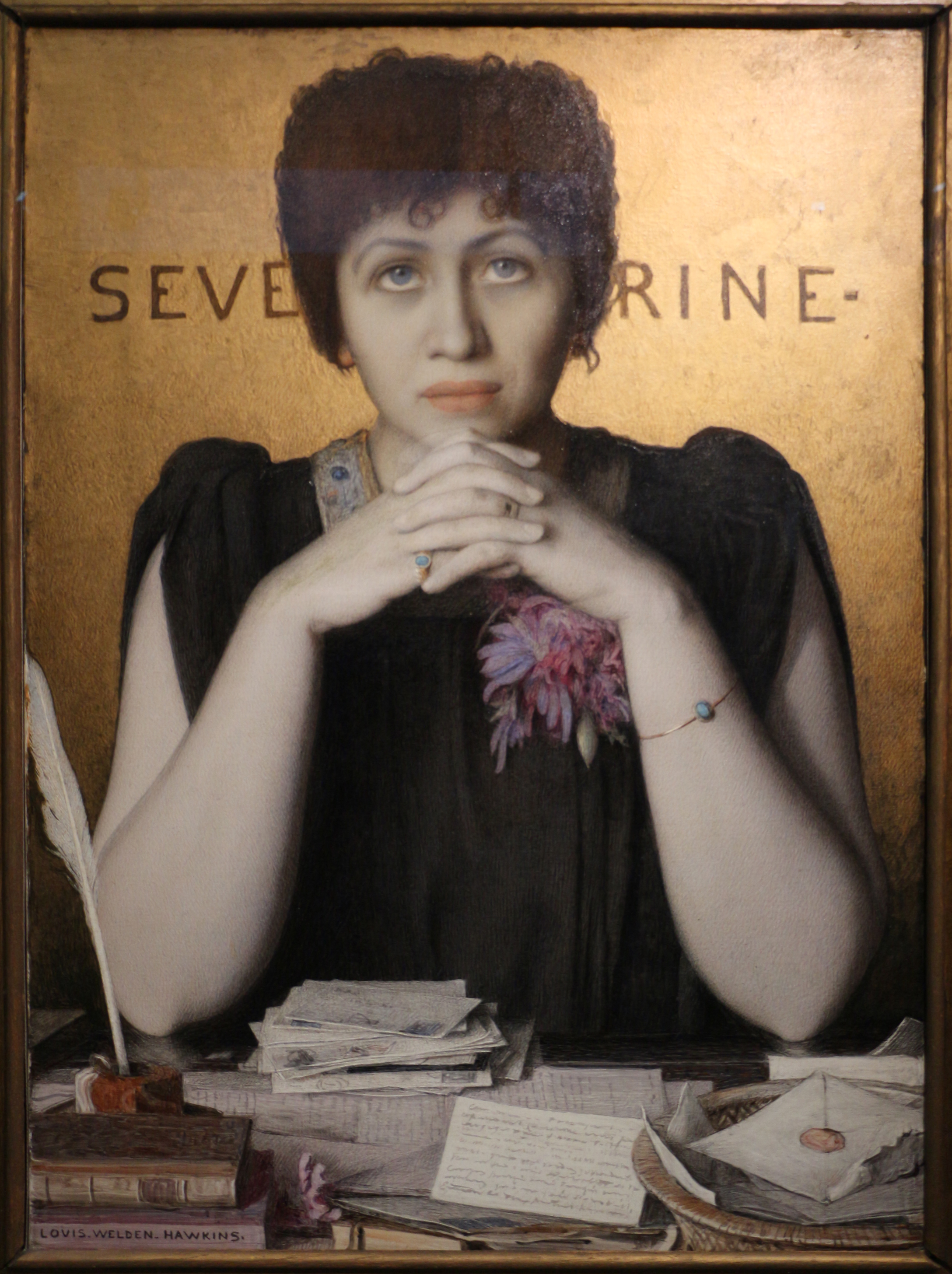 Paintings in Musée d'Orsay